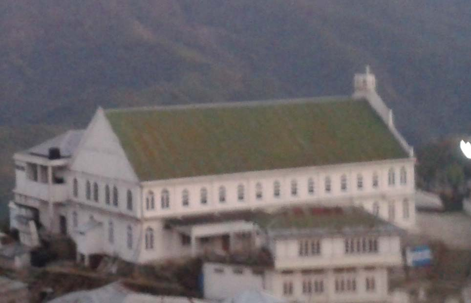 Presbyterian Church, Ngopa